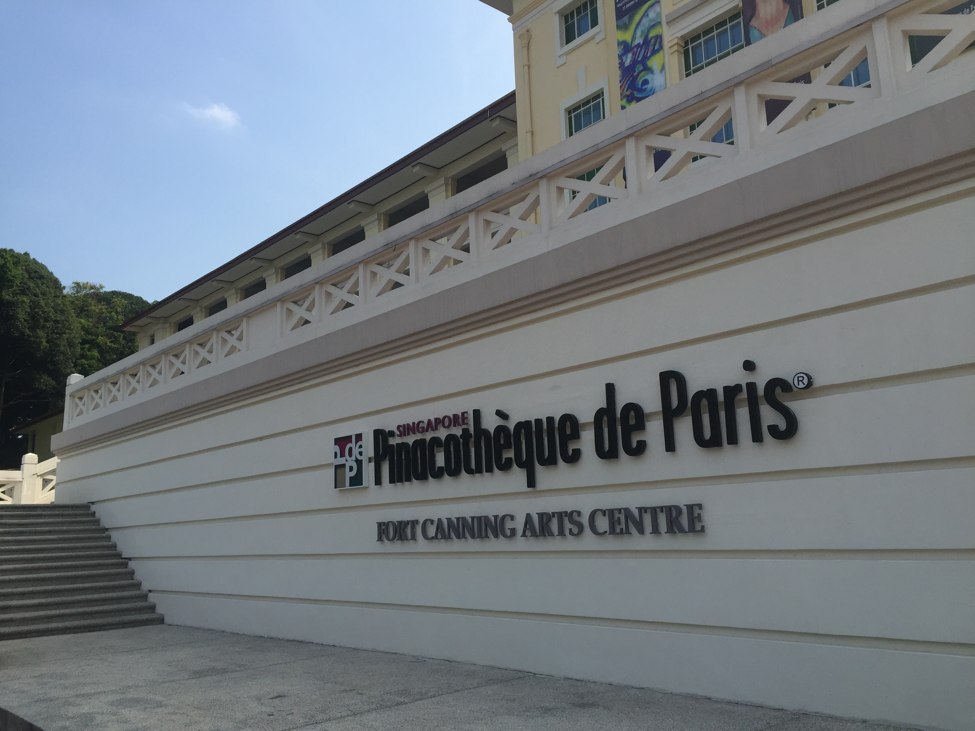 Fort Canning Centre on Fort Canning Hill, Singapore. It was occupied by the art museum Singapore Pinacothèque de Paris from 29 May 2015 until 11 April 2016.